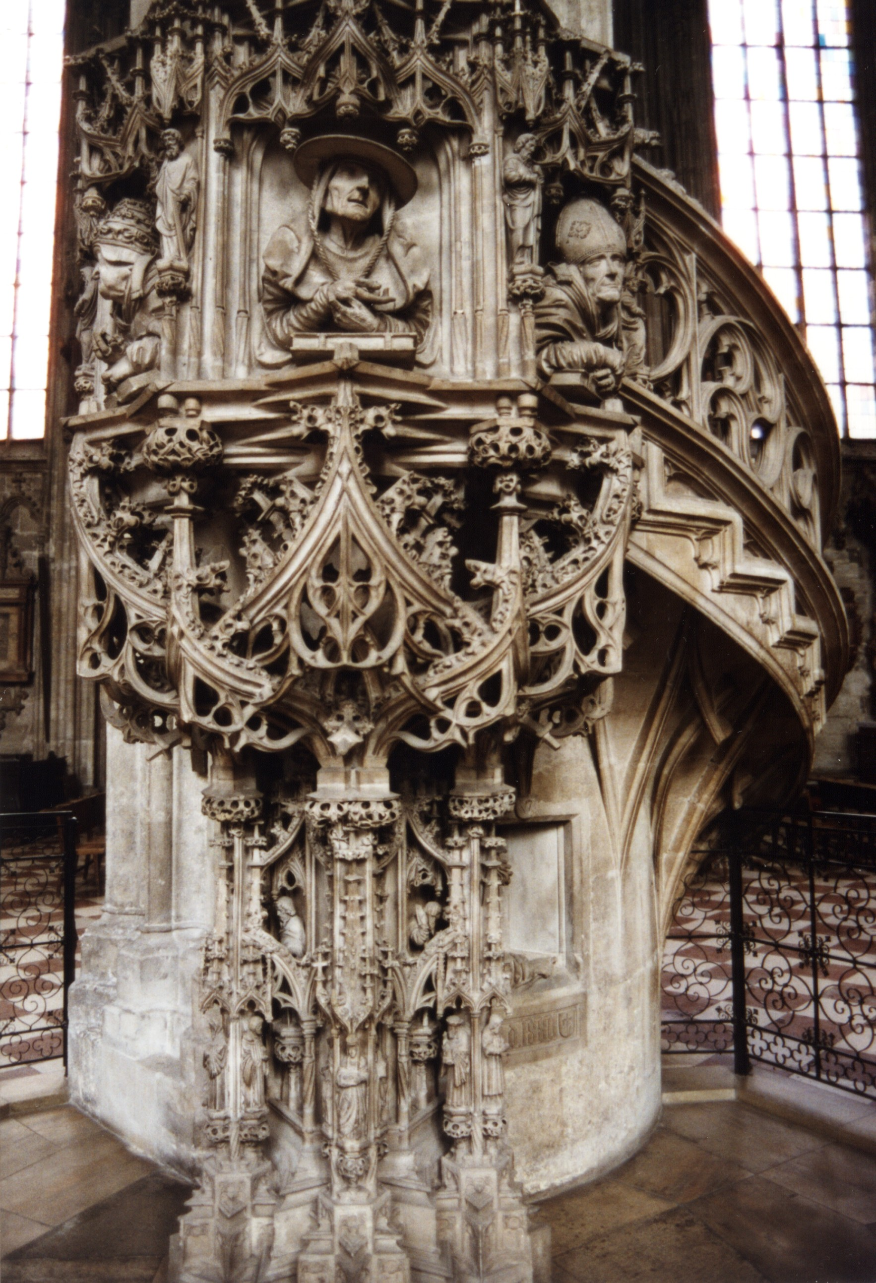 Pulpit of Stephansdom, Vienna.